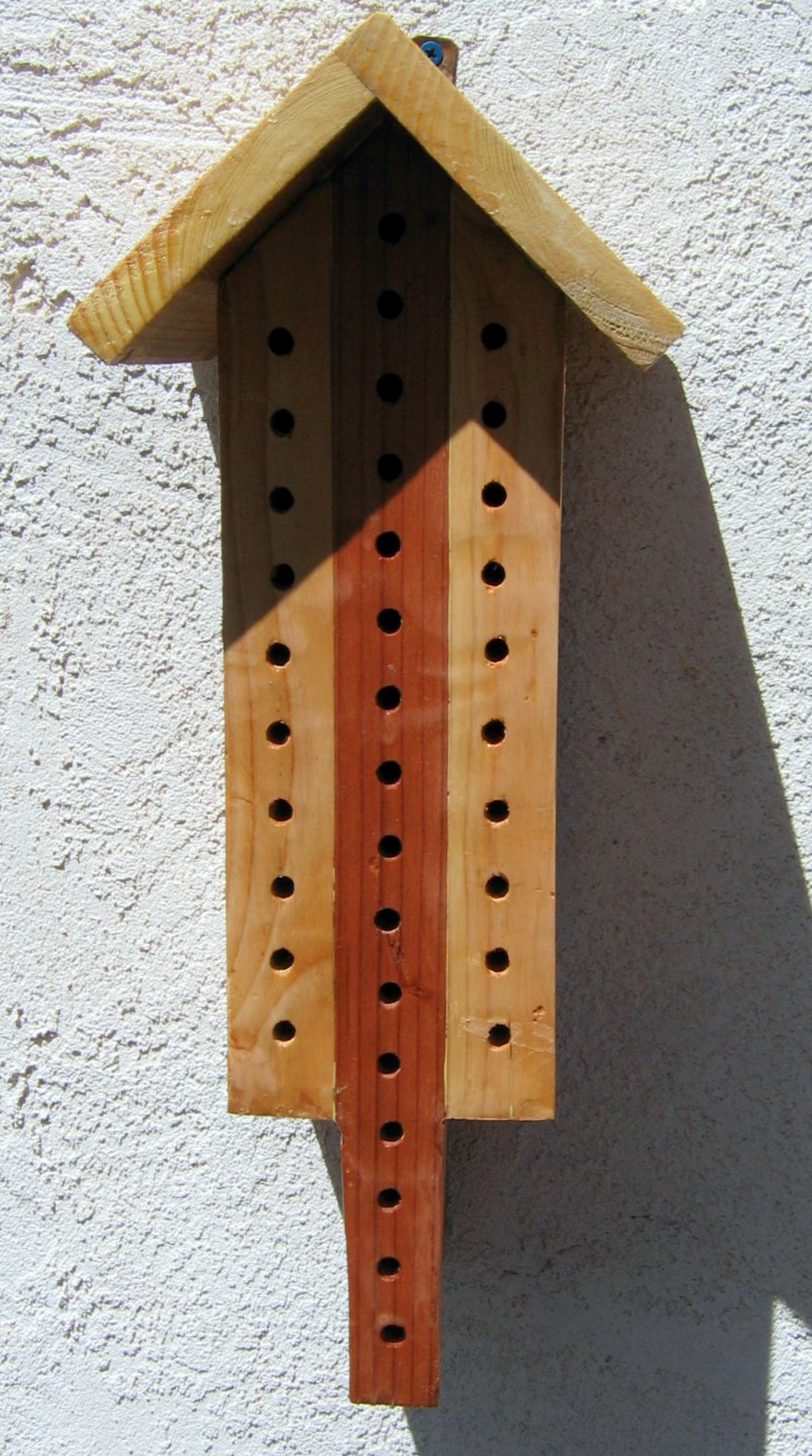 Photograph of a Solitary Bee house take and built by Robert Engelhardt. This picture was taken specifically for the Beekeeping Wiki book, but may be used for any purpose for which it is fit.